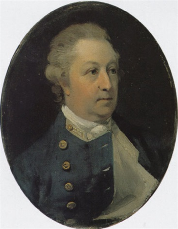 Portrait of Admiral Sir Thomas Frankland, Fifth BT of Kirby Hall, Berkshire, and Thirkleby, near Thirsk wearing naval uniform, by Henry Walton Oil on Panel Size: 24 x 18.5 cm. (9.4 x 7.3 in.)